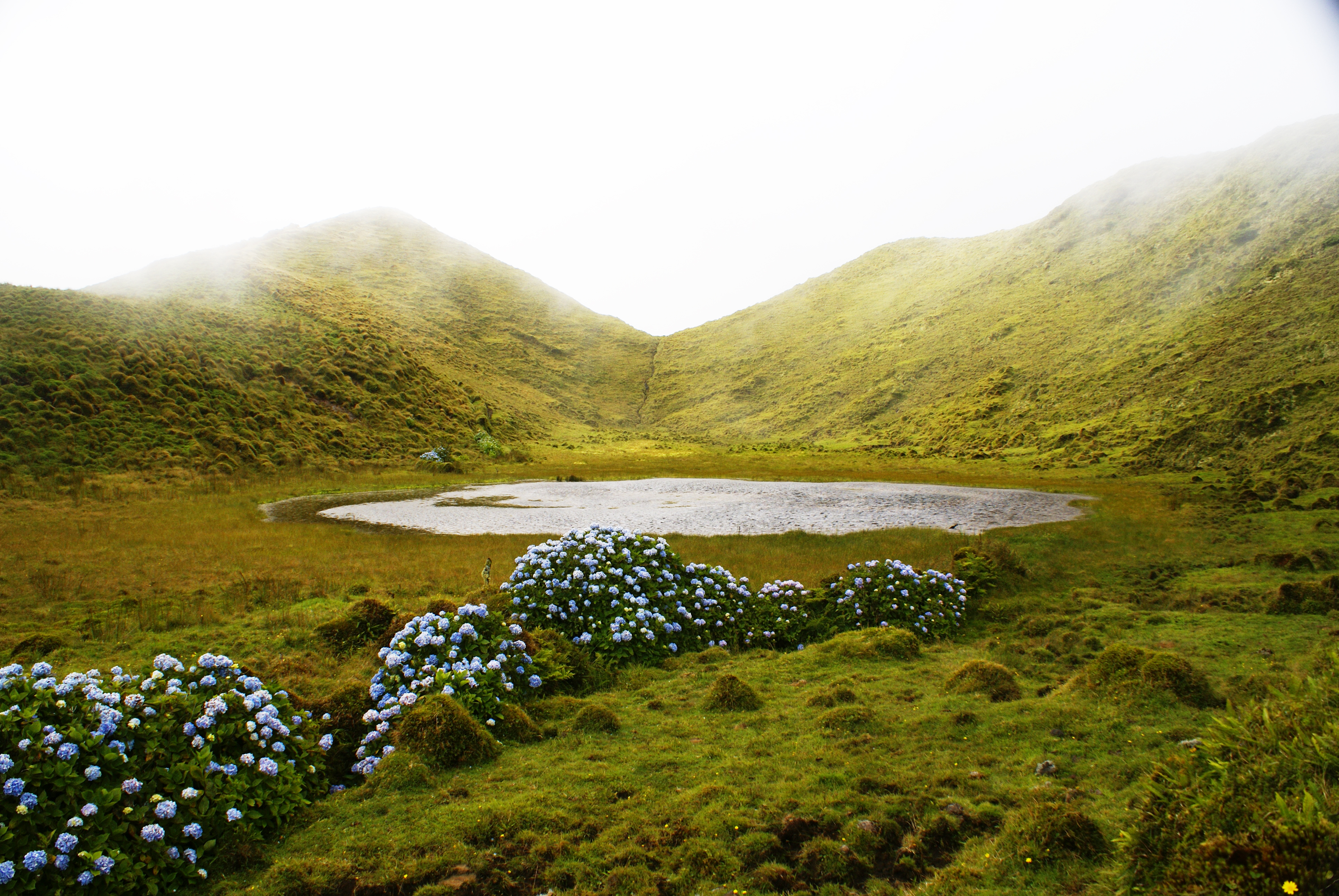 Lagoa dos Grotões, municipality of Lajes do Pico, island of Pico, Azores (Portugal)